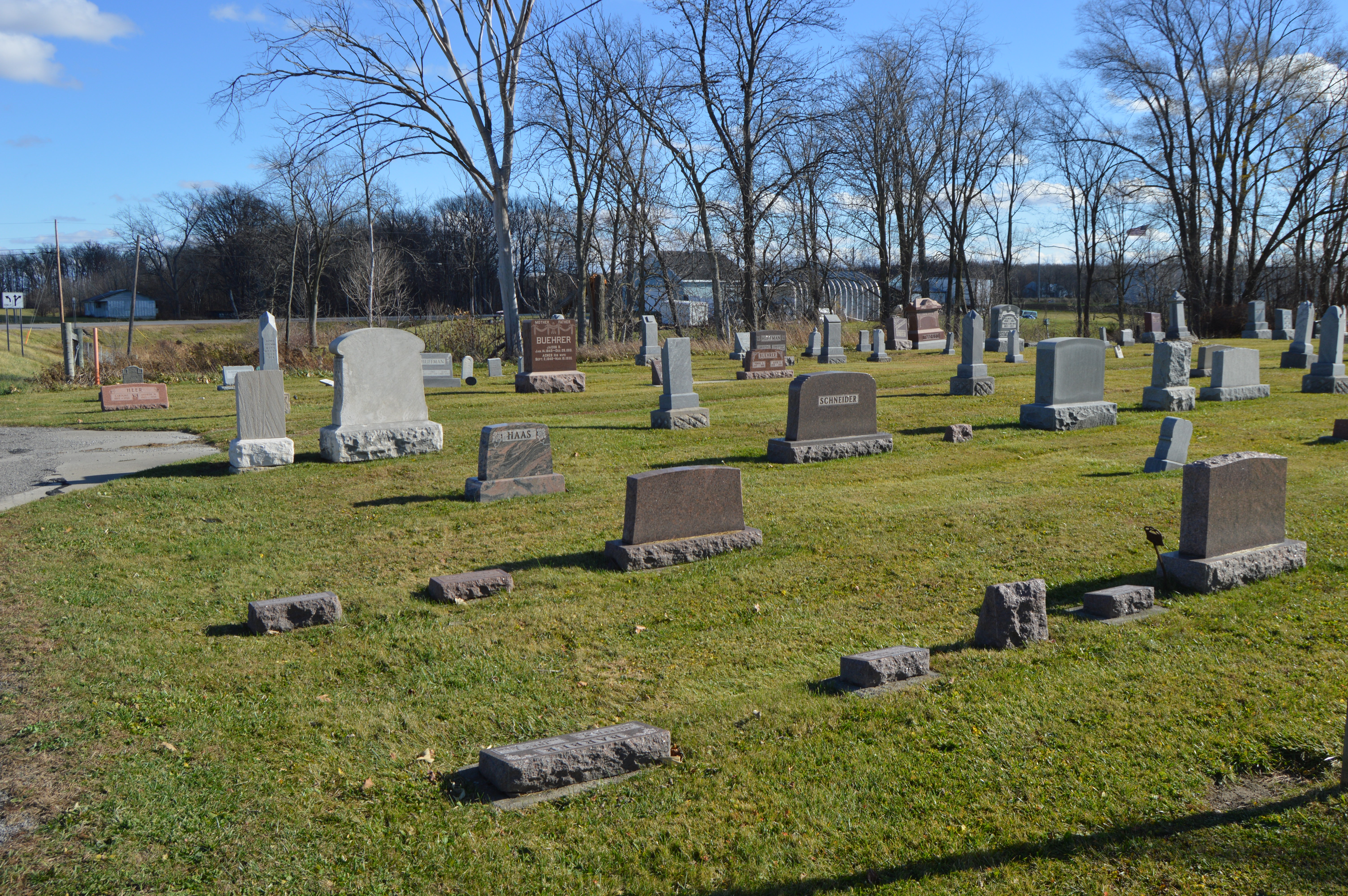 Overview of Zion Cemetery, located on the southern side of U.S. Route 6 just west of the State Route 66 intersection in Springfield Township, Williams County, Ohio, United States.